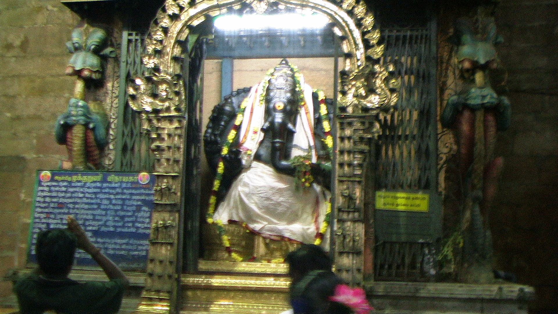 Ganesha statue in the Madurai Meenakshi temple